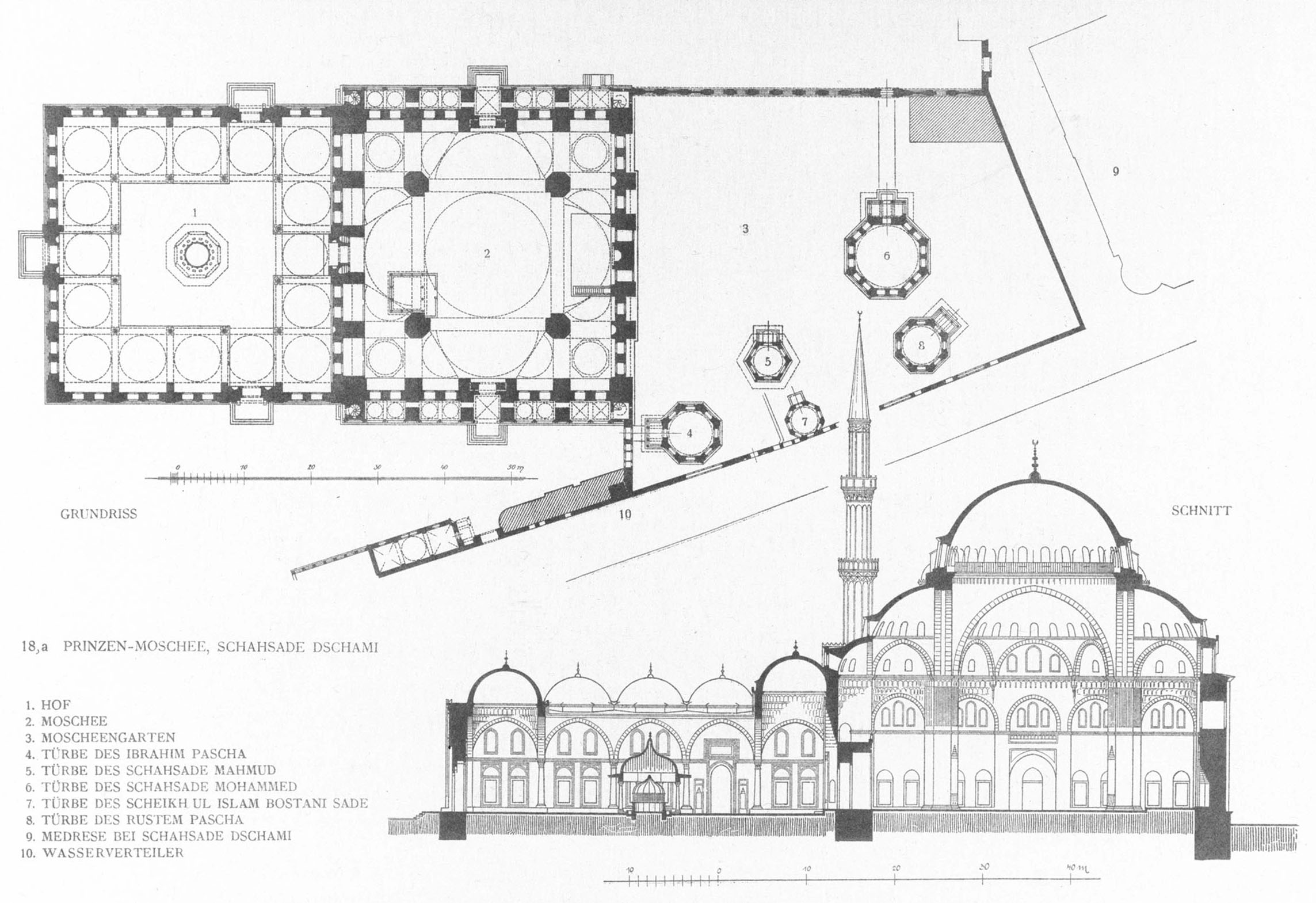 Cross section and plan of the Şehzade Mosque, Istanbul